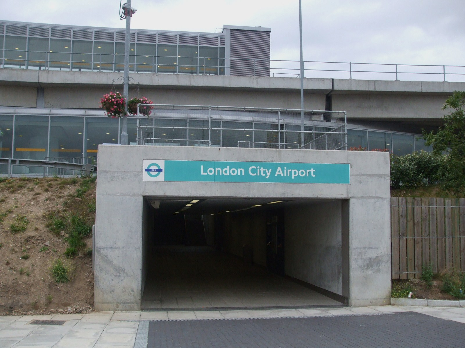 Southern entrance to London City Airport DLR station